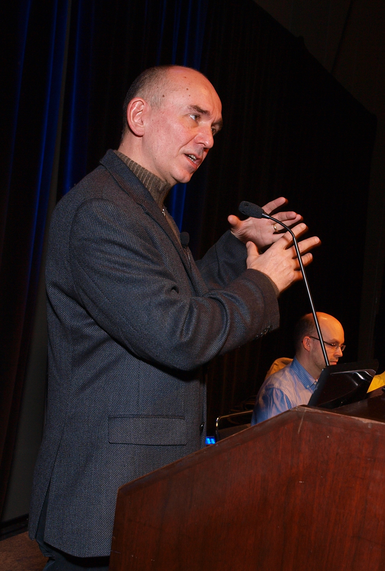 Peter Molyneux and Josh Atkins (Microsoft Games Studio) at the Game Developers Conference in 2010 (third day), speaking for “The complex challenges of intuitive design.